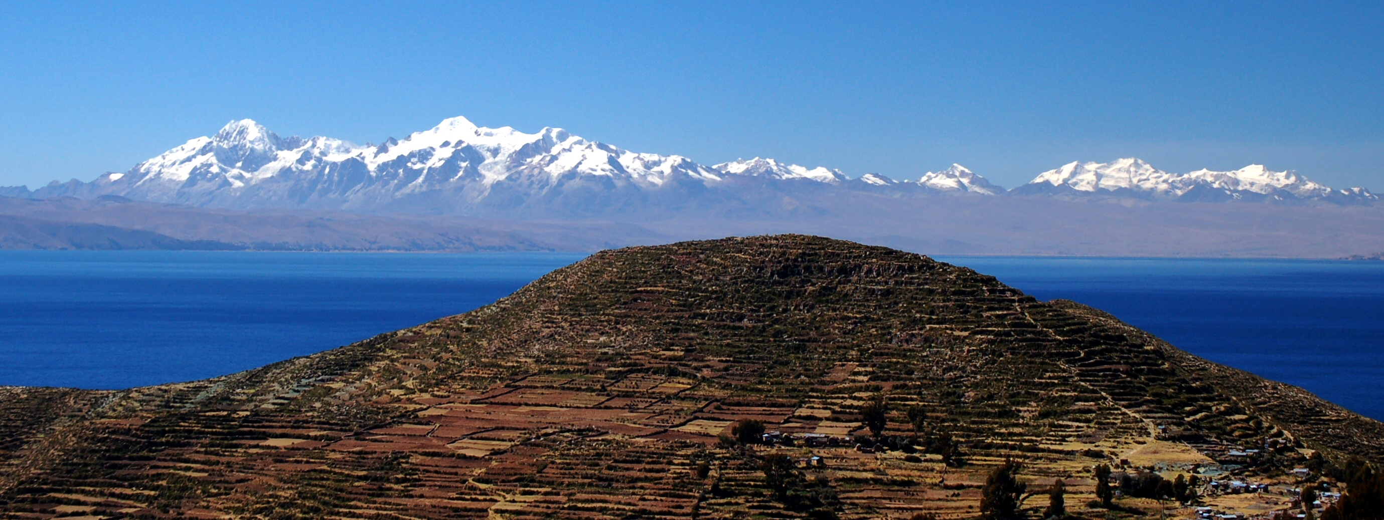 In the foreground, farms rising in terraces up the hillside.